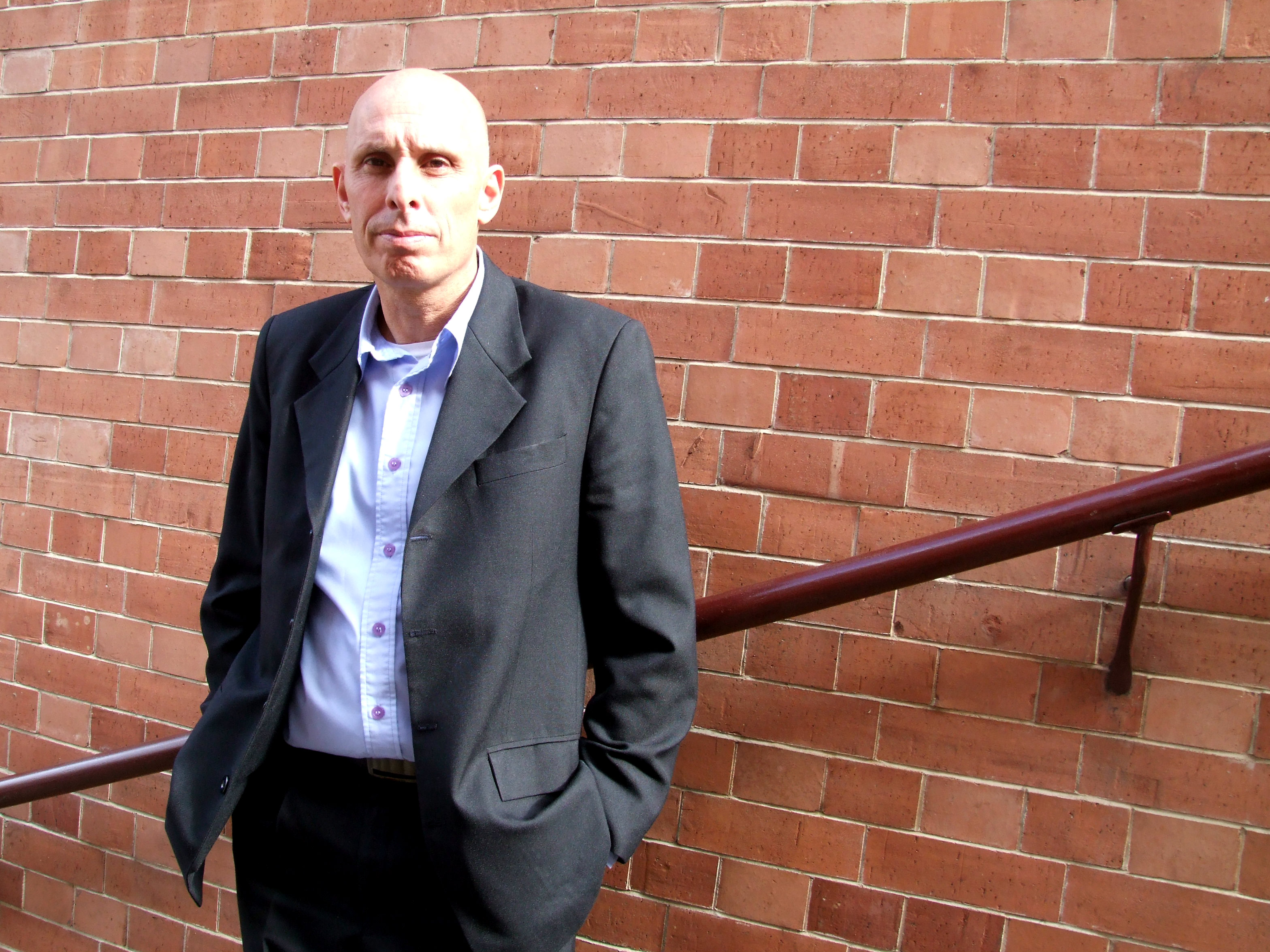 Stephen Constantine photographed outside the St Pancras Hotel, London, August 2014